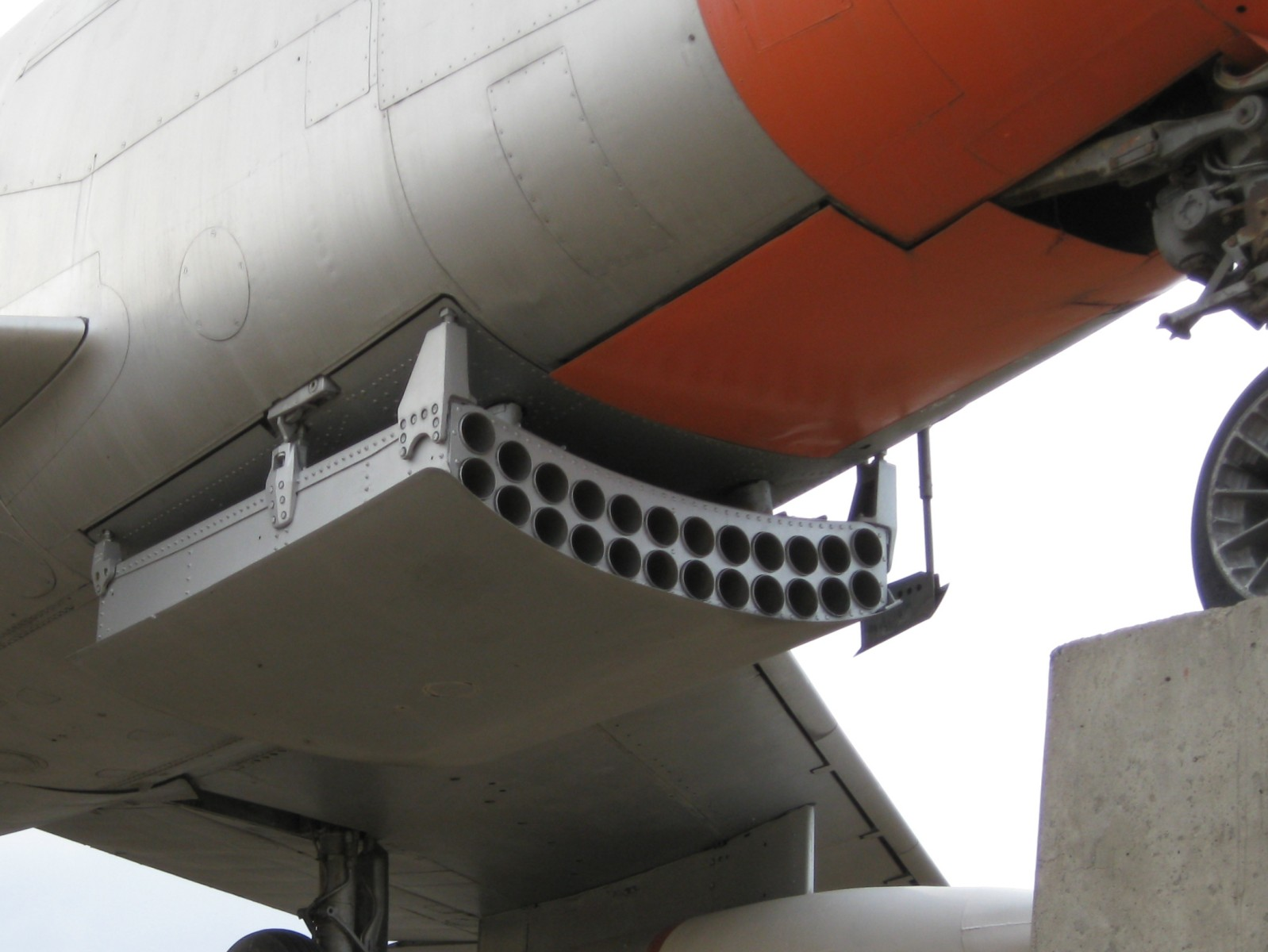 North American F-86D Sabre Dog rocket tray, Butte, Montana